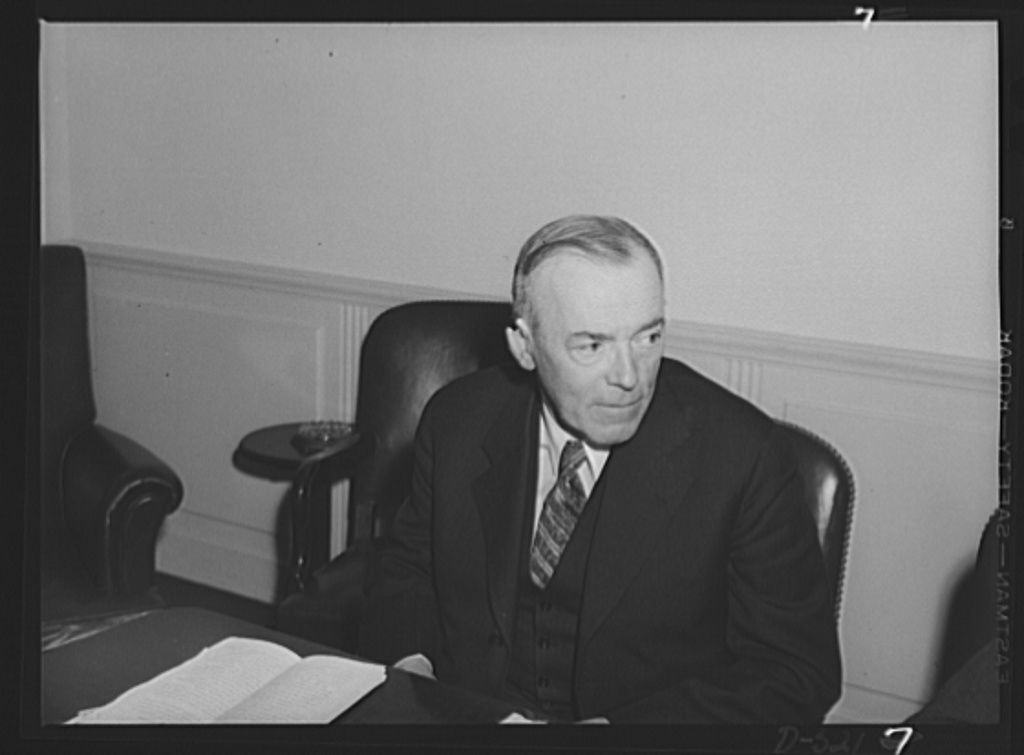 Walter Clark Teagle, member of the new Mediation Board. Former President of the Standard Oil Company of New Jersey